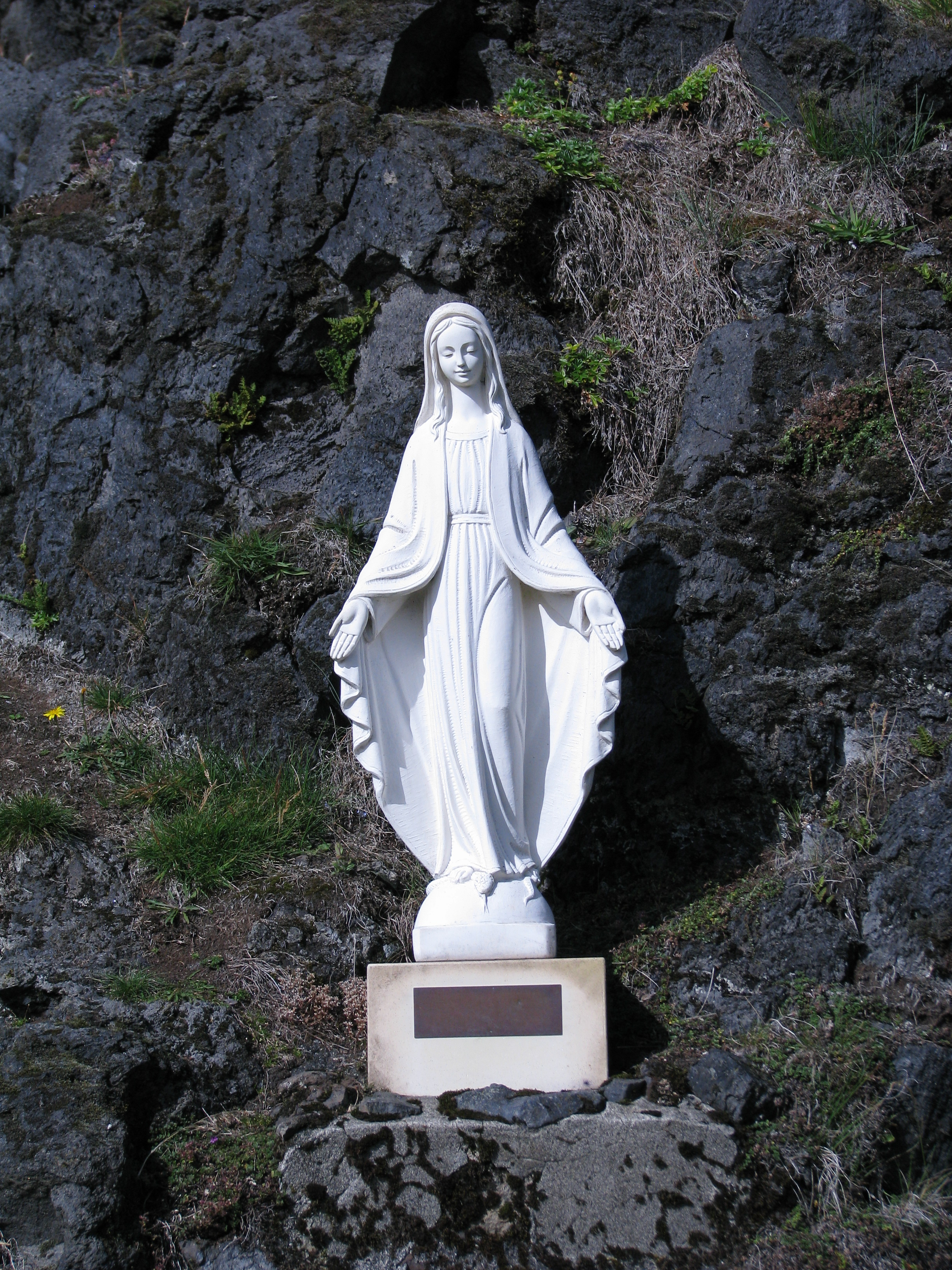 Maríulind, a small statue of the Virgin Maria at Hellnar, a small town on Iceland